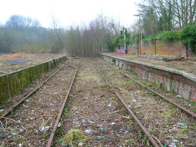 Waiting for the Ghost TrainThe platforms of the original Uckfield station are still in place but are used only by the local wildlife. The station survived the axing of the line from here to Lewes in 1969 having survived Beeching but falling prey to Lewes' need to build a ring road around the town through railway land until 1991 when the irritation of having the station on the western side of a level crossing on the High Street forced British Rail to construct another on the eastern side. The buildings survived but were demolished in 2000 after an arson attack made them unsafe. The future of the site is still in limbo depending on how successful the campaign to resurrect the line from Uckfield to Lewes is. The council wish to build a car park on the site and if they succeed will end any hope of this.